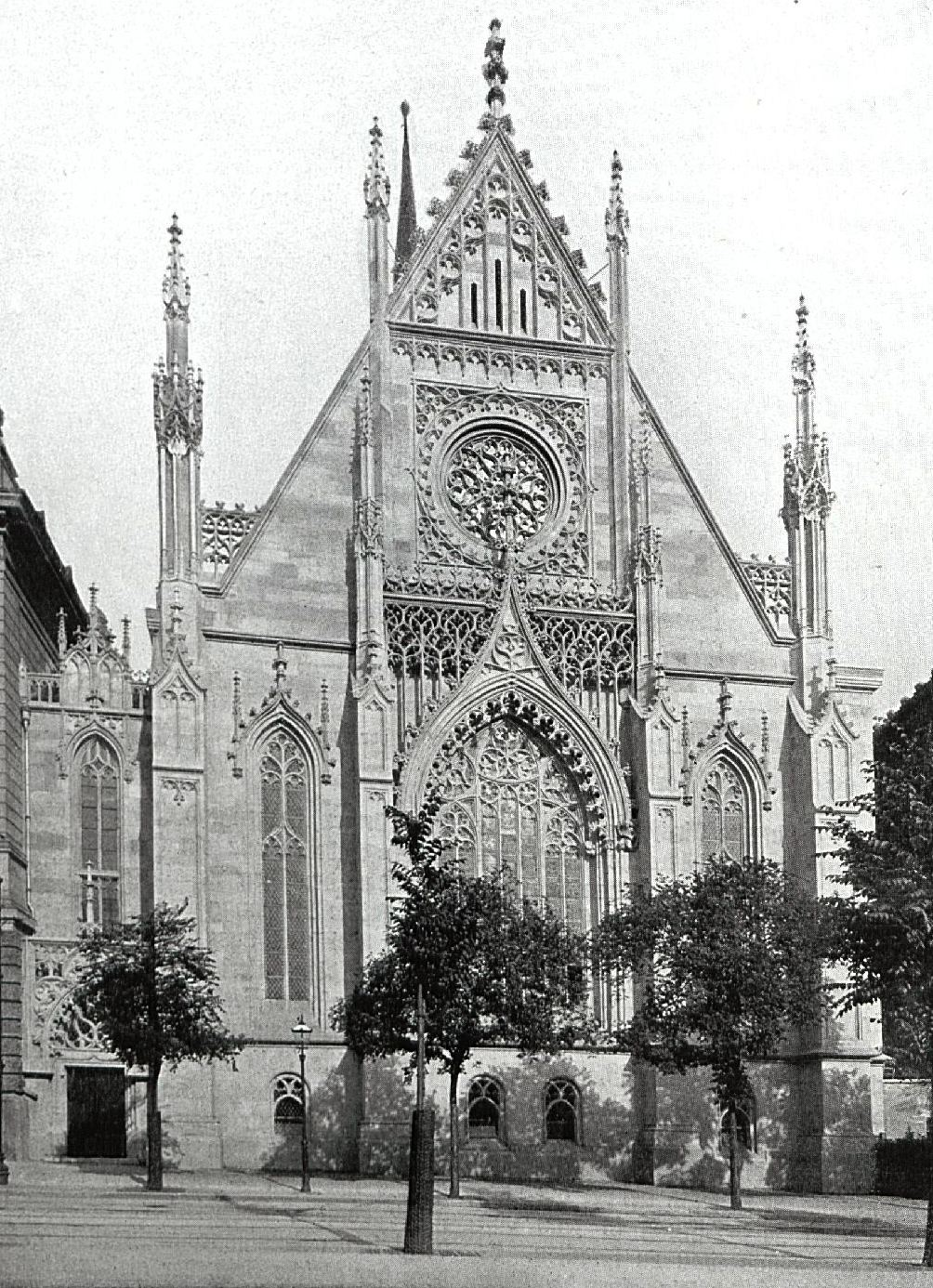 t